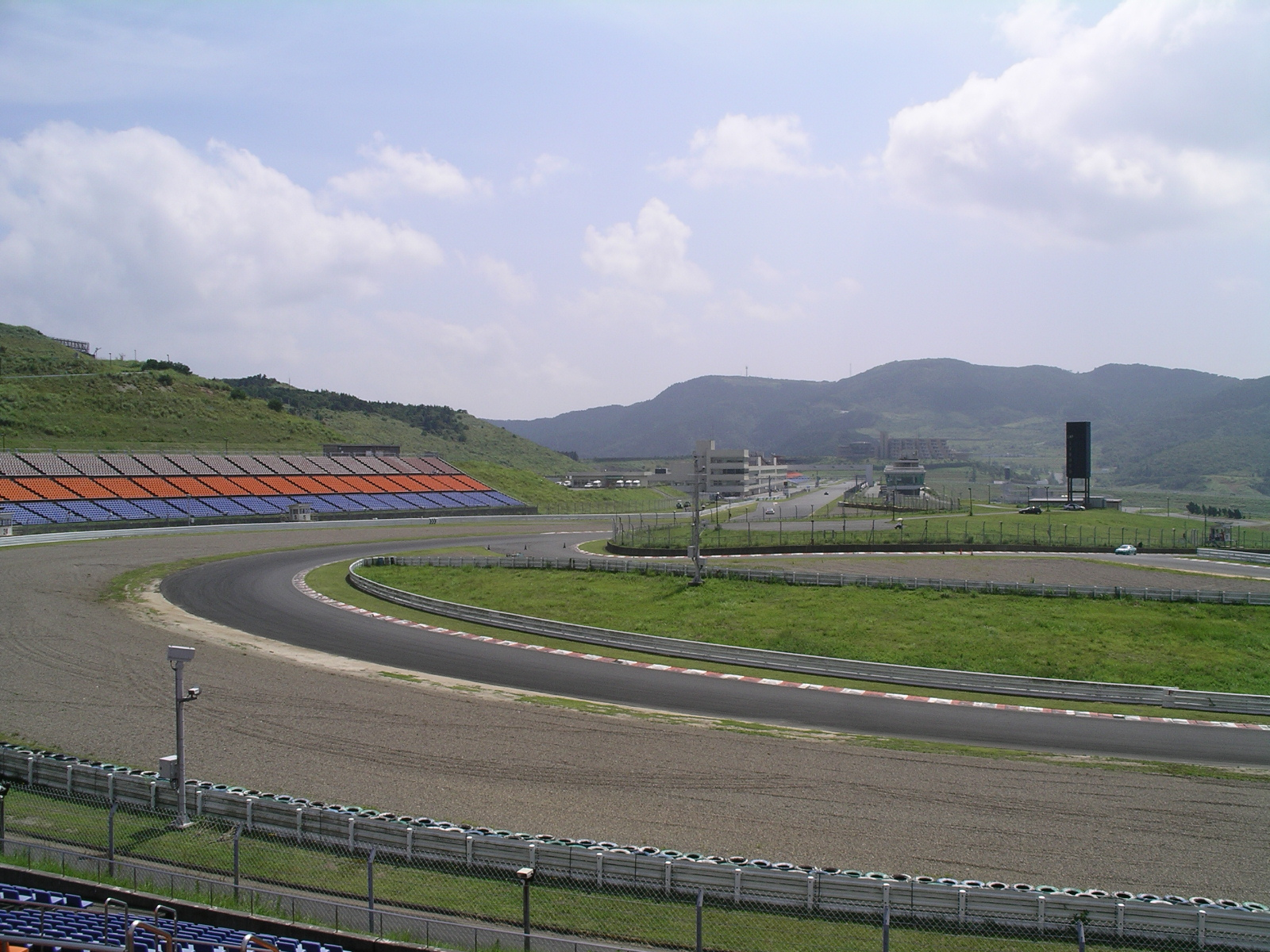 Autopolis racing circuit, Kamitsue village, Oita prefecture, Japan. Autopolis racing circuit, Kamitsue village, Oita prefecture, Japan.